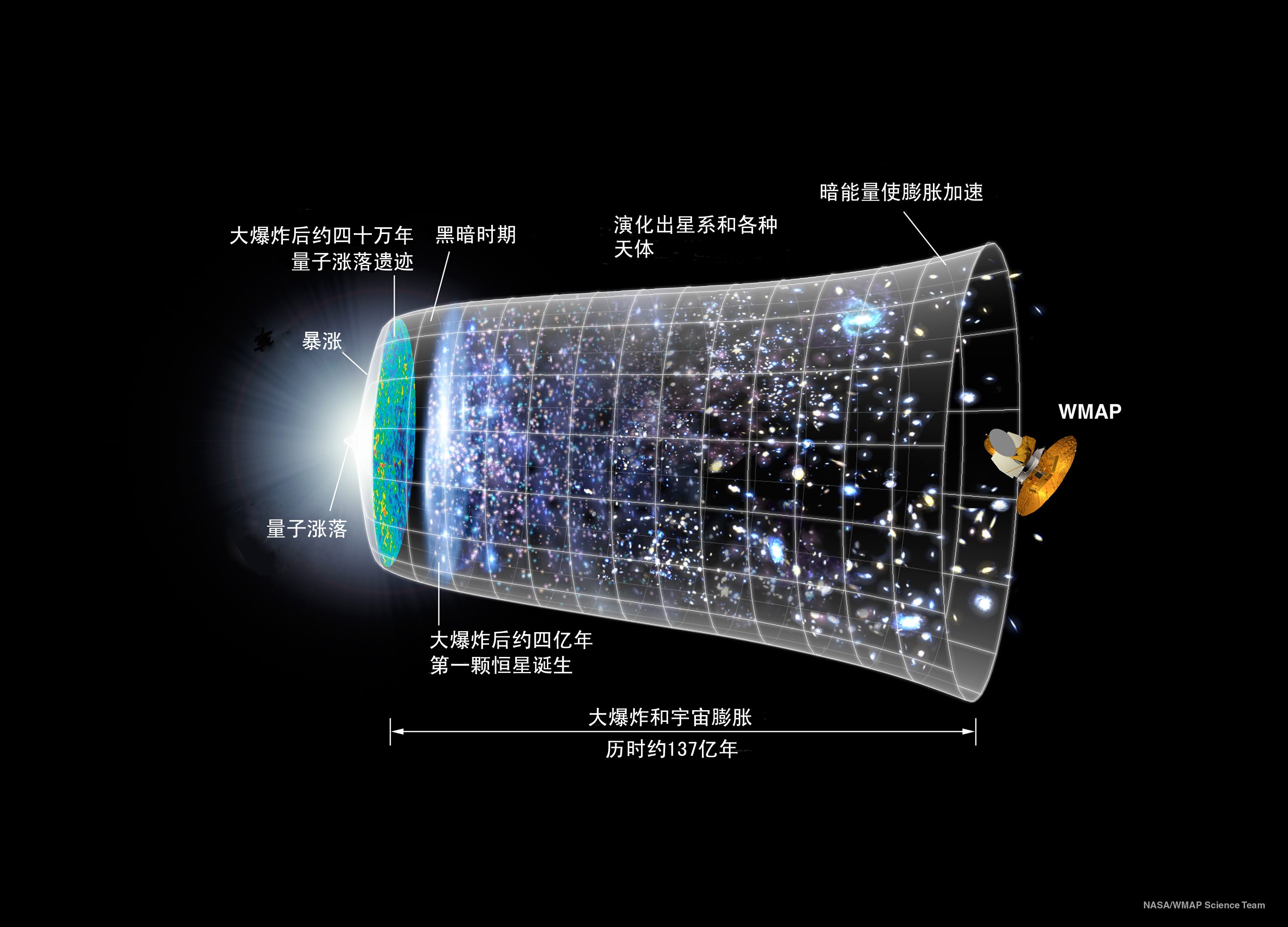 Time Line of the Universe